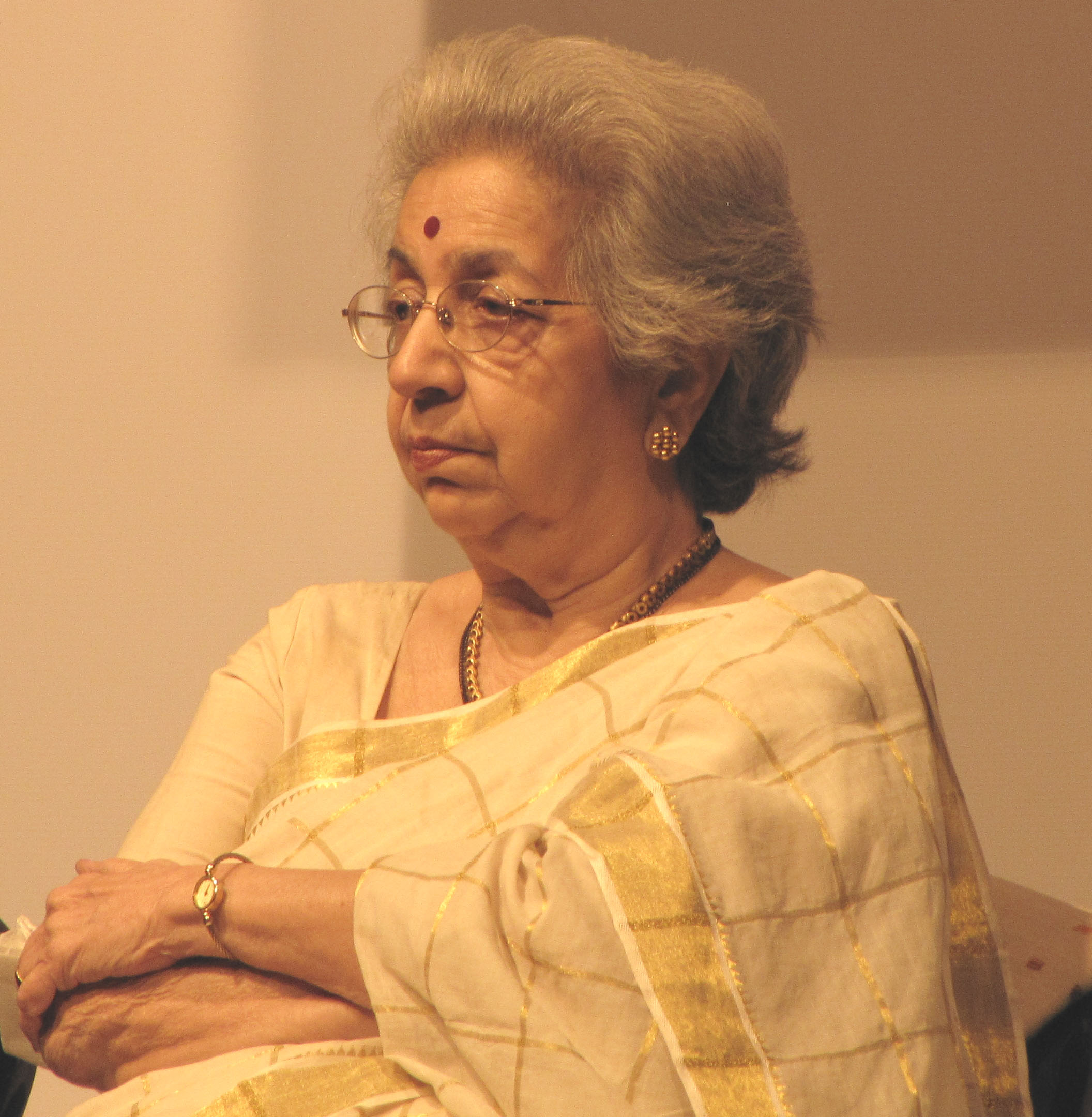 vijaya mehta, pune